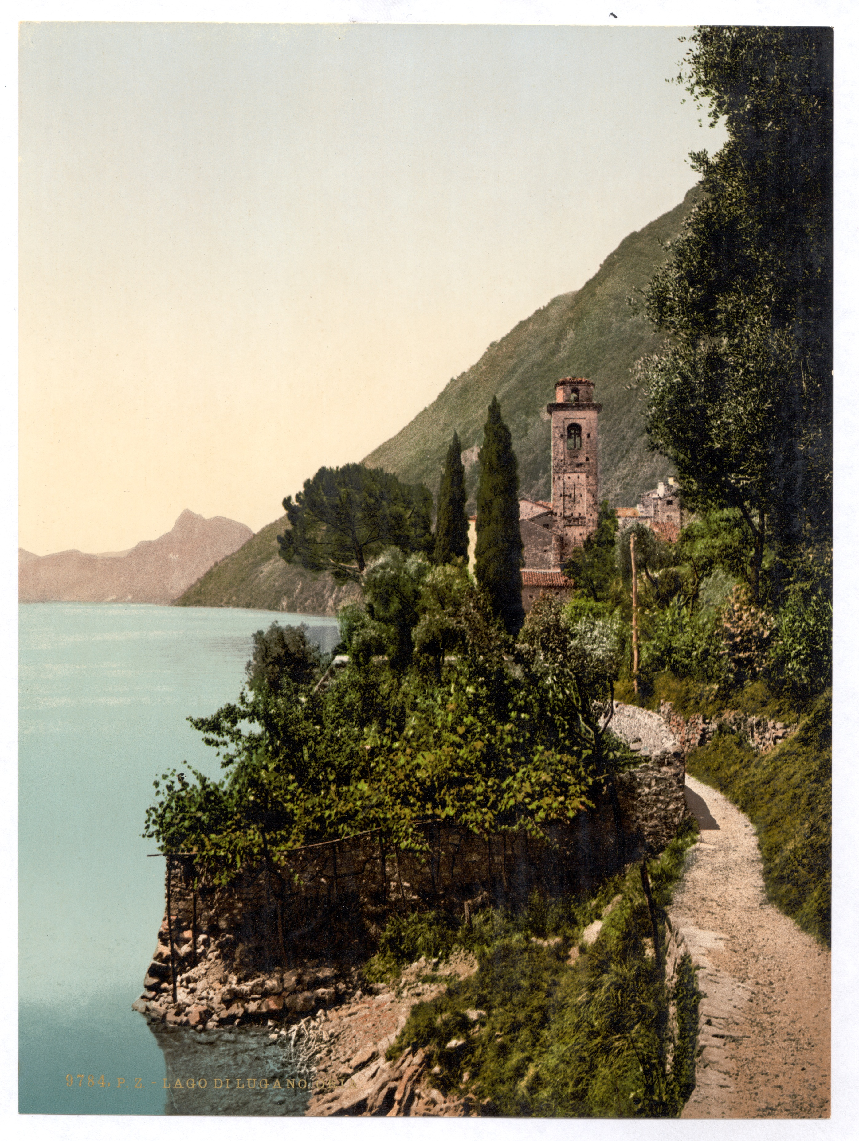 Forms part of: Views of Switzerland in the Photochrom print collection.; Print no. "9784".; Title from the Detroit Publishing Co., Catalogue J-foreign section, Detroit, Mich. : Detroit Publishing Company, 1905.